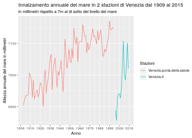 file realizzato con RStudio con dati presi da qui